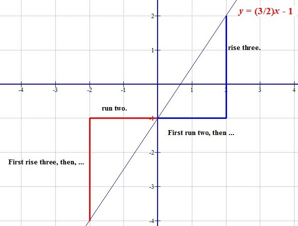 Slope of lines illustrated